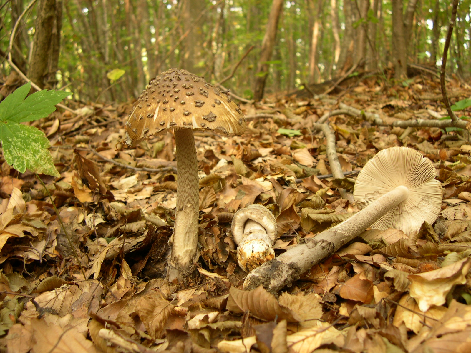 Amanita ceciliae (Berk. & Broome) Bas 1983